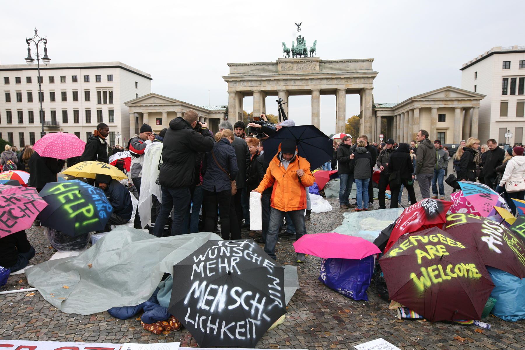 Hunger strike of refugees in Berlin